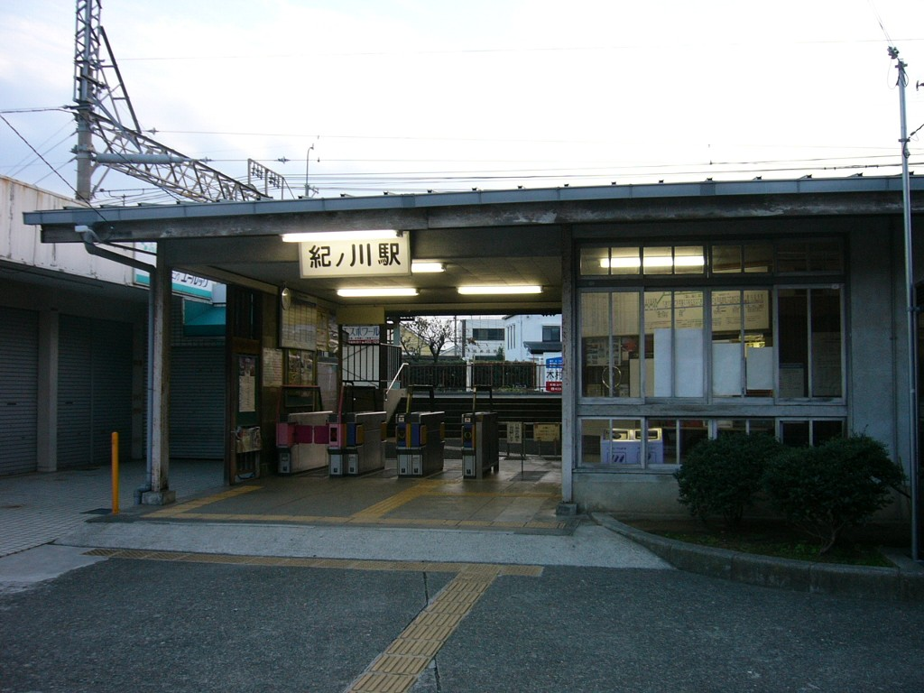 Frontview of Kinokawa station of Nankai electric railway Nankai main line, Wakayama city Wakayama prefecture Japan.